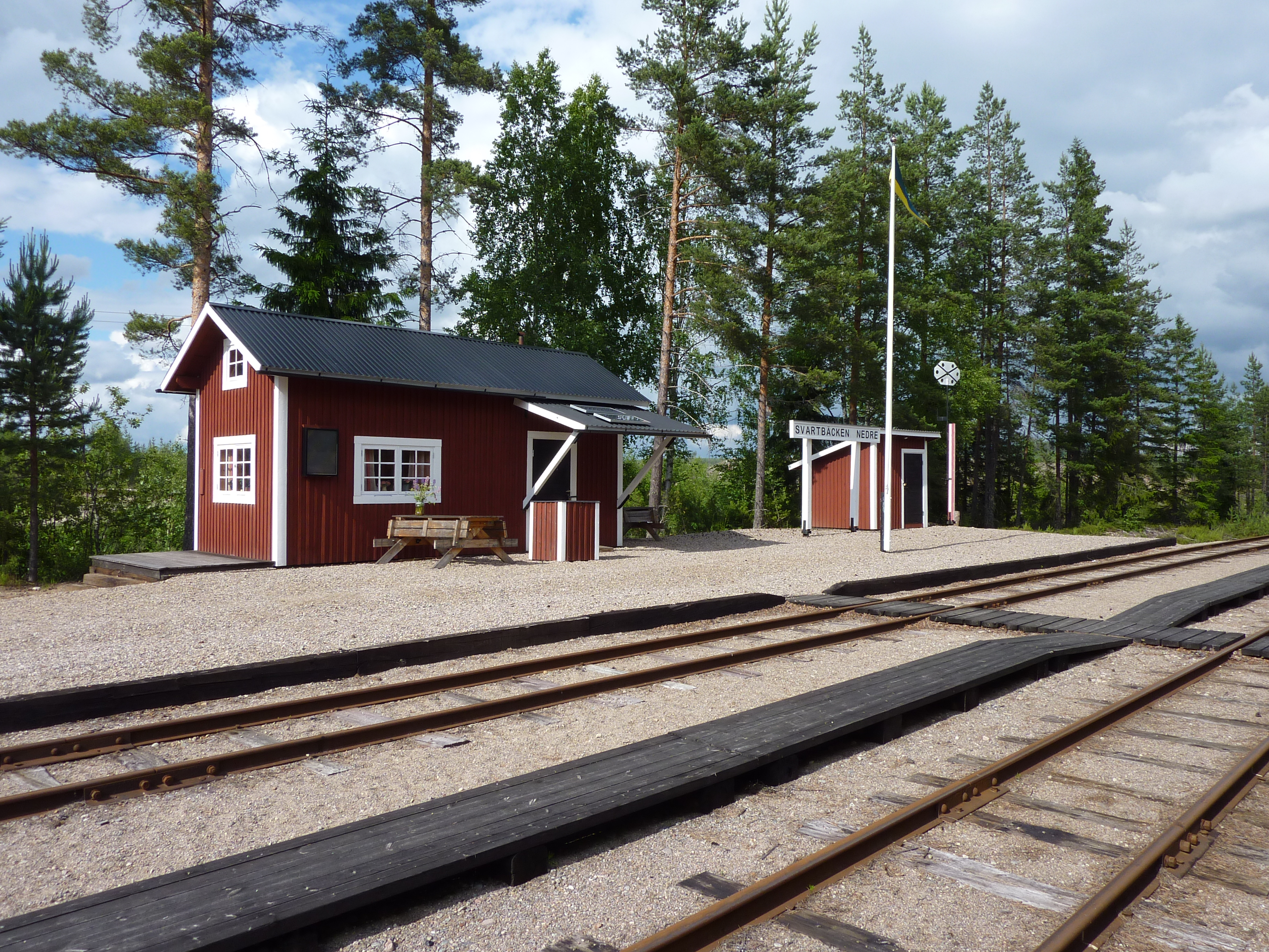 Railway station Svartbäcken Nedre at Jädraås - Tallås museum railway in Sweden